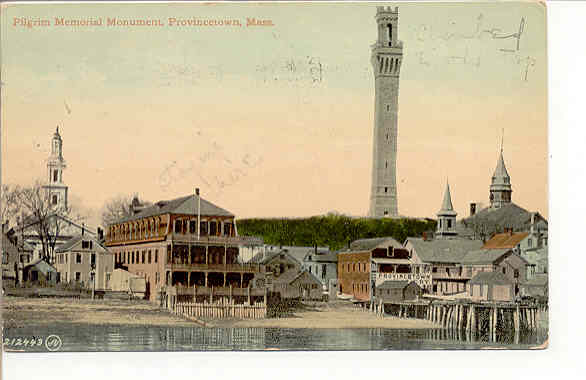 Pilgrim Monument in Provincetown (Massachusetts, USA), on a 1910 postcard.